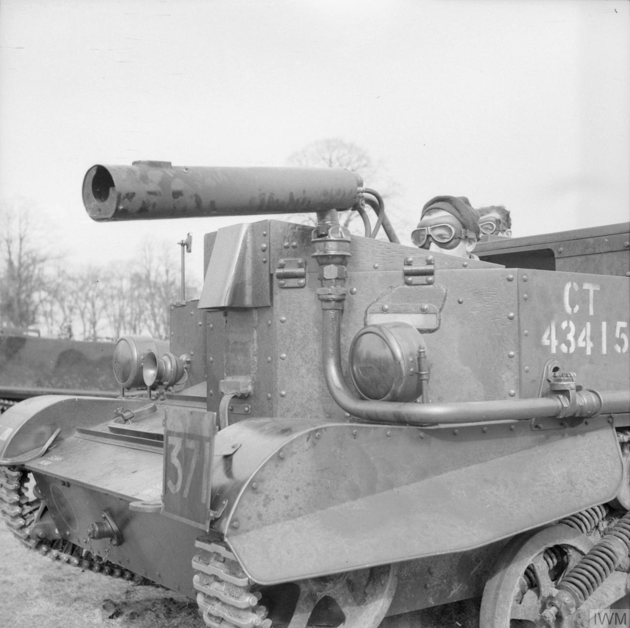 The British Army in the United Kingdom 1939-45 Close-up of a flamethrower mounted on a Universal carrier, seen at a demonstration of flame weapons in Scotland, March 1942.